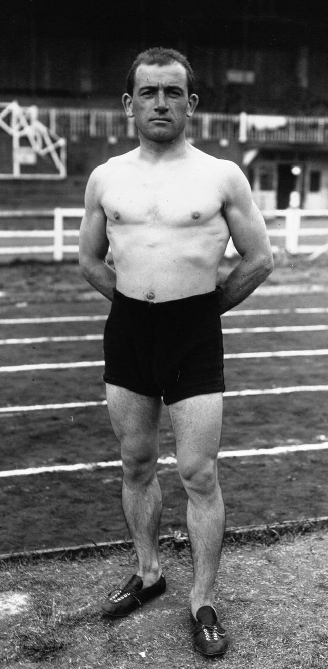 Picture of Enrico Porro